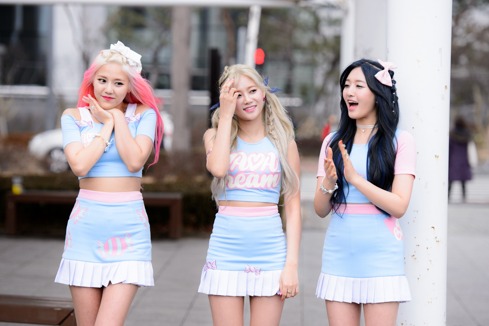 AOA Cream at a mini fan meeting on Februay 13, 2016.